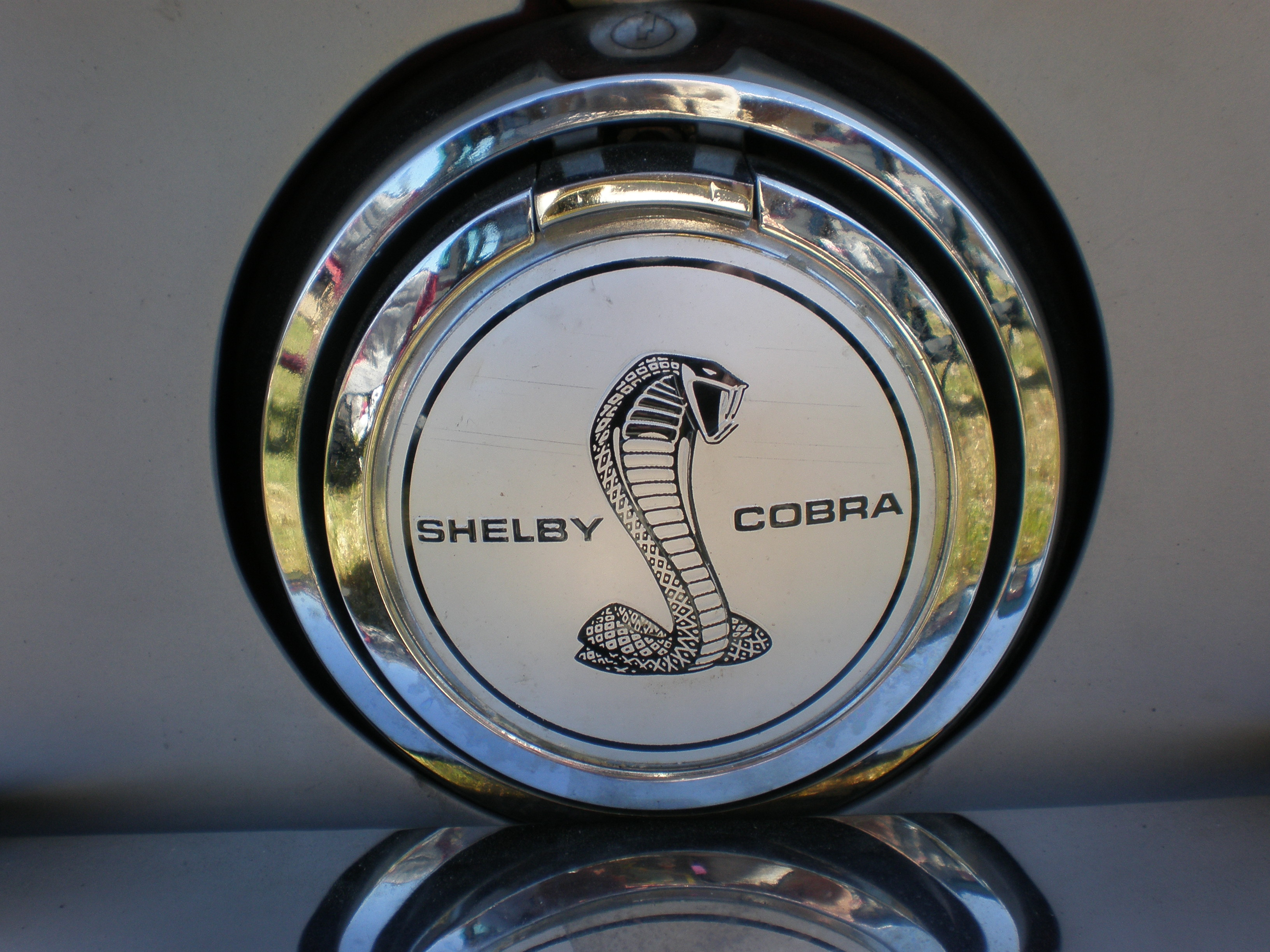 The badge of a 1967-68 Shelby Mustang GT500 at the Pacific Coast Dream Machines vehicle show at the Half Moon Bay Airport in Half Moon Bay, California